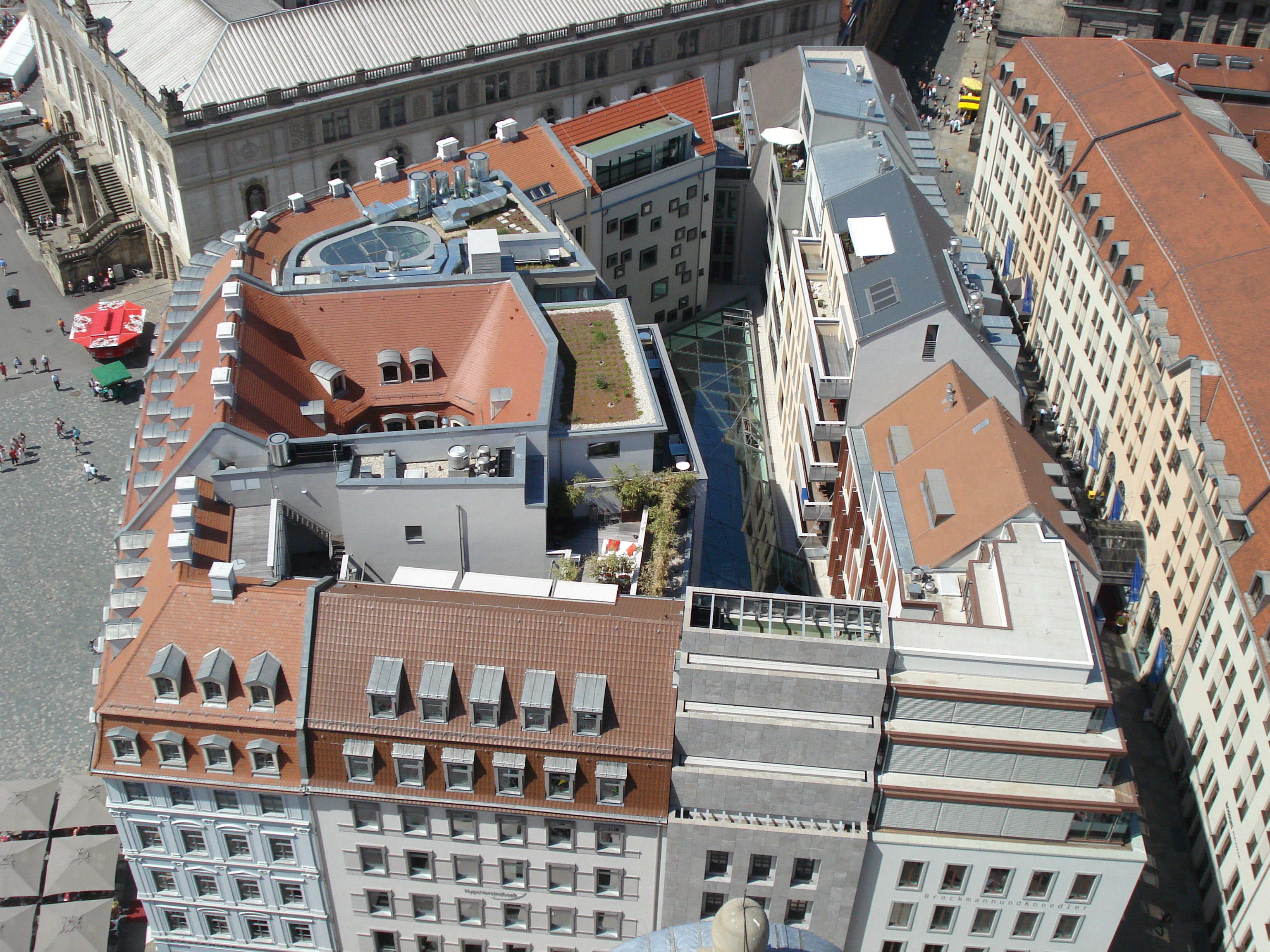 The terrain of Dresden